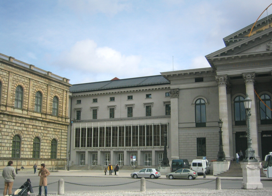 Munich, Germany: Residenztheater (opened 1951), Max-Joseph-Platz